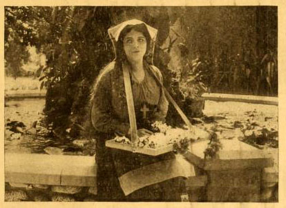 Cover of The Moving Picture World with still from the film The Making of Maddalena (1916).